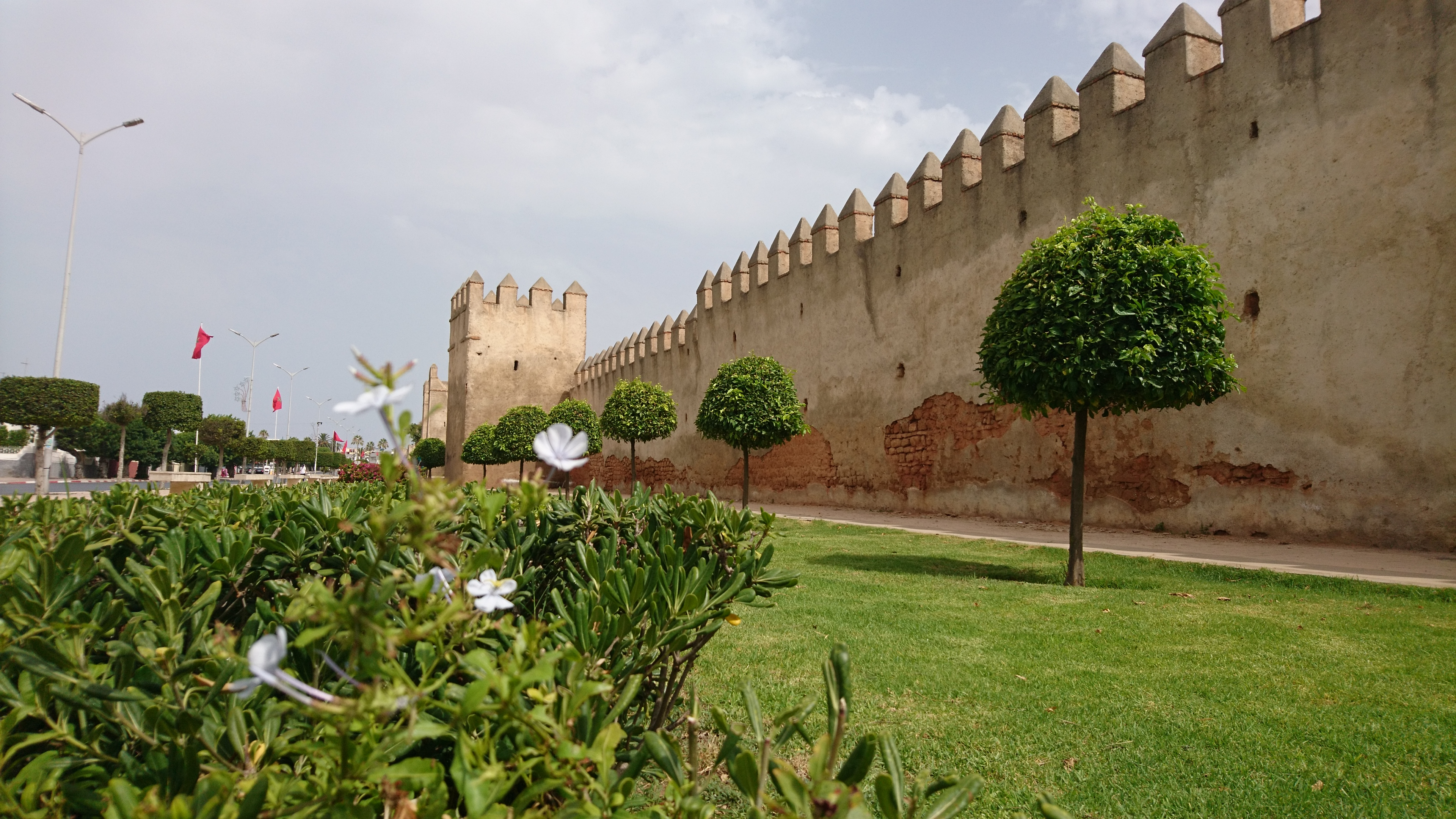 Part of Salé wall close to Bab Bouhaja